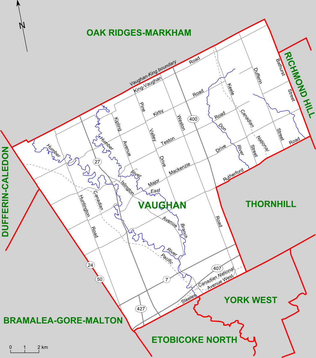 Map of the Ontario federal and provincial riding of Vaughan (boundaries defined 2003, adopted federally in 2004 and provincially in 2007)